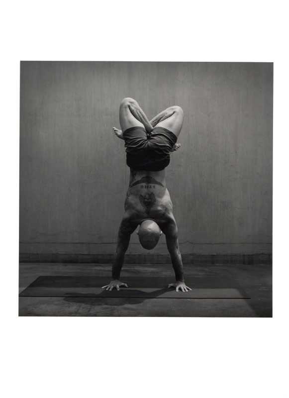 Barry Silver 2011